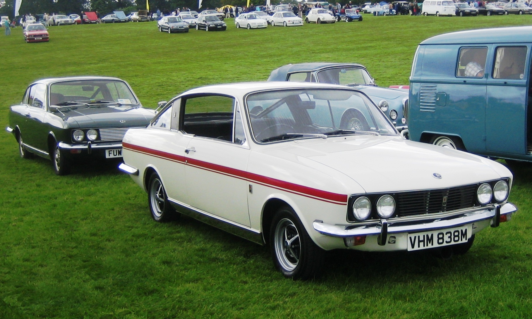 Sunbeam Rapiers at Classic Car Show in Hertfordshire